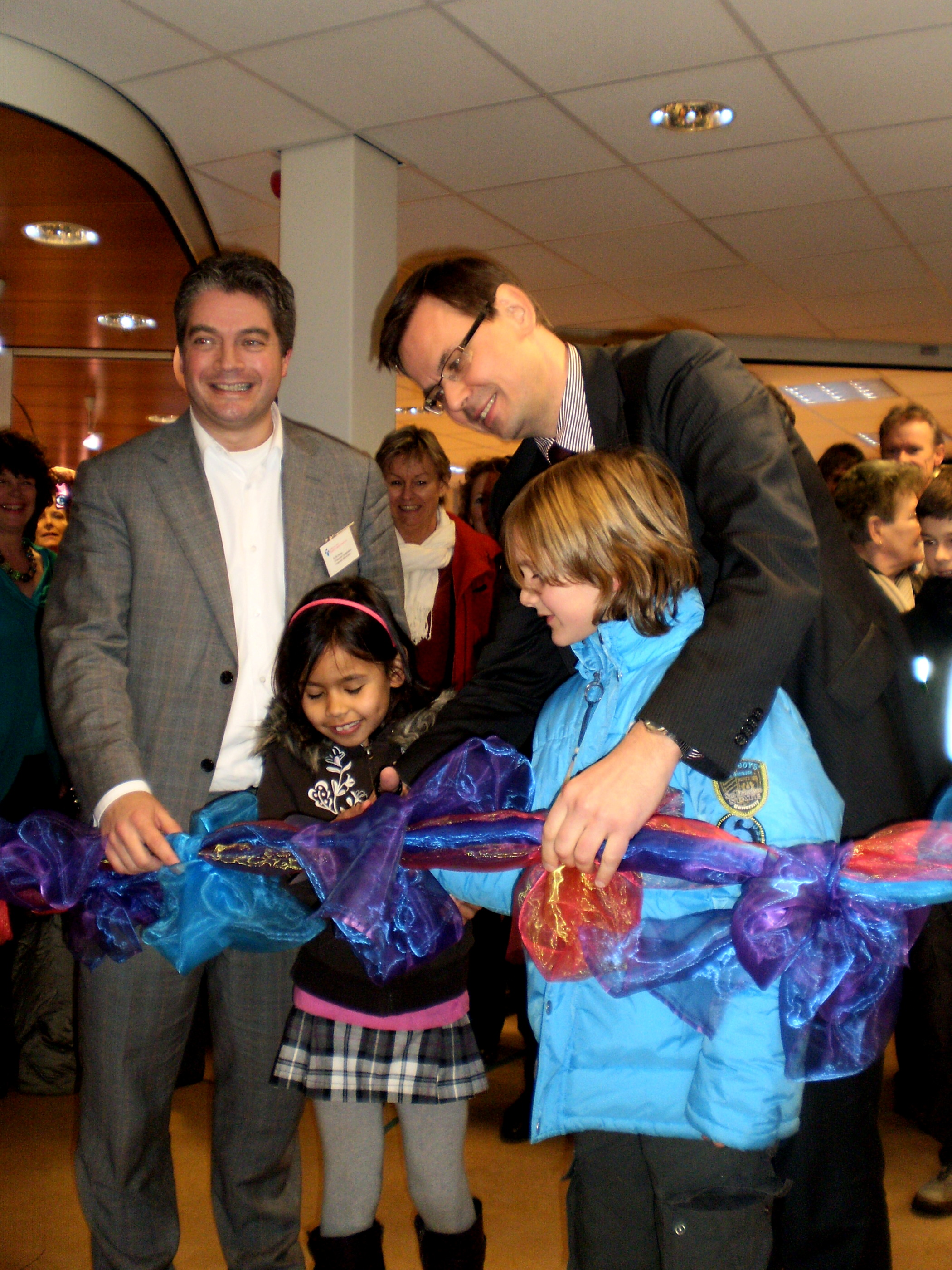 Dutch Youth and Family minister André Rouvoet officially opening the Youth and Family Centre in Hilversum South. On the left: alderman Erik Boog